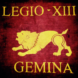 picture of vexillum of legio XIII